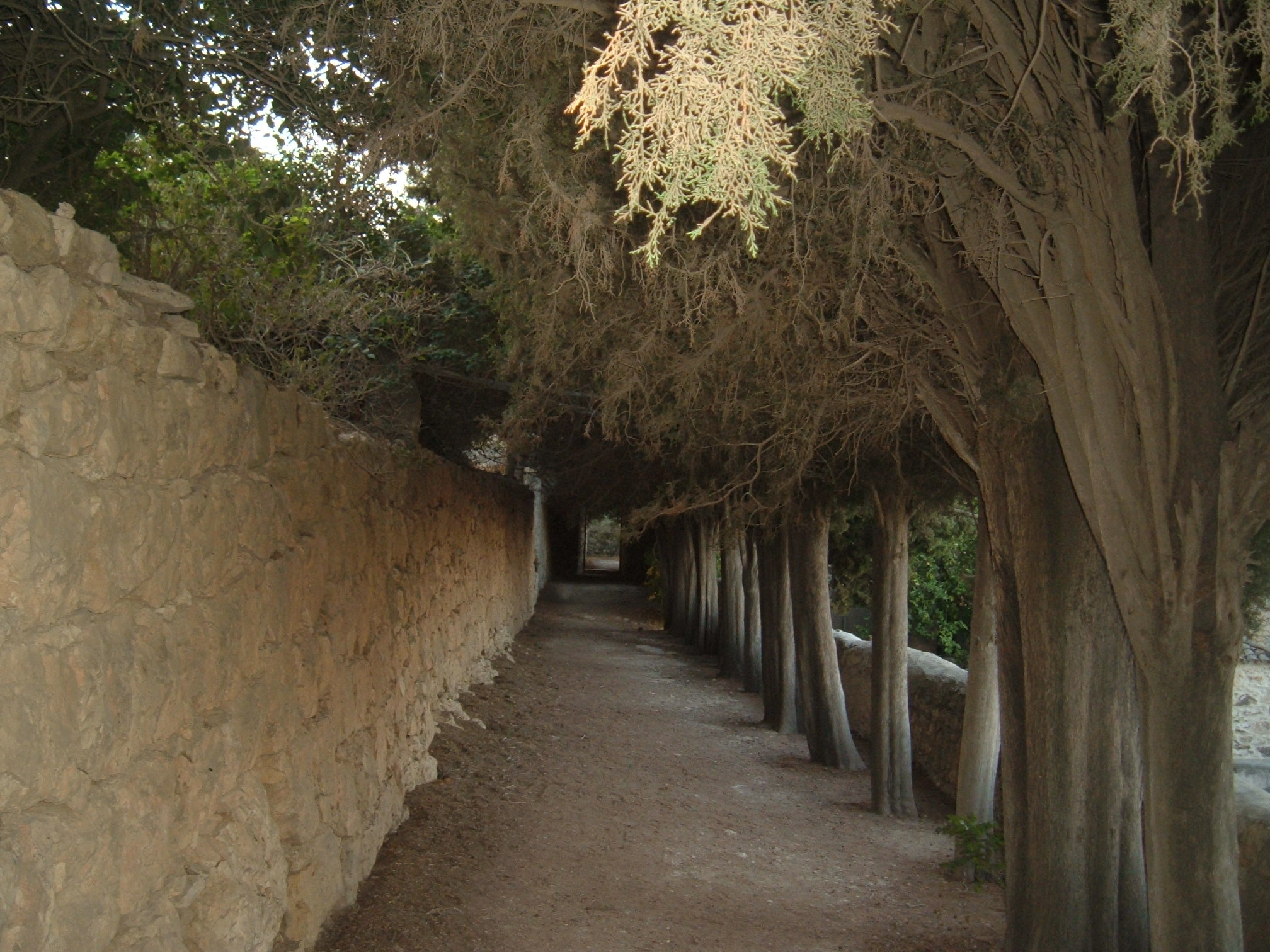 Jerusalem, Ein Kerem, Sister zion